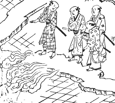 Will-o'-the-wisp that burns in the arena of warfare" from the Tonoigusa